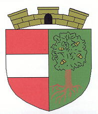 Coat of arms of Laxenburg, Lower Austria